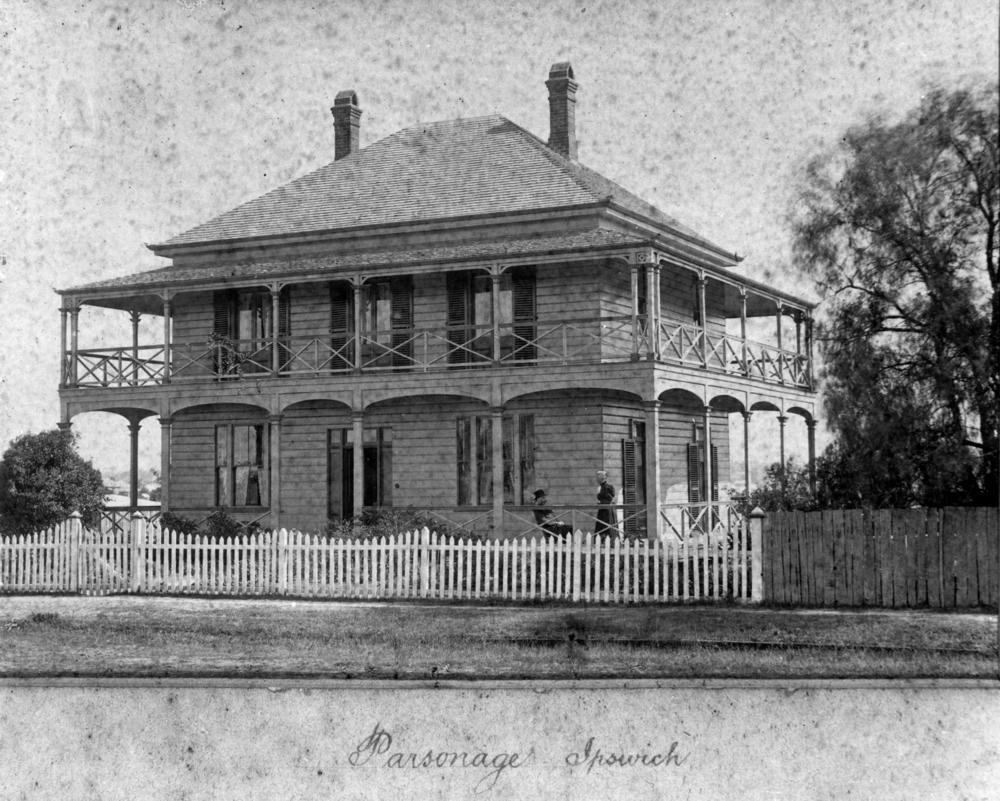 Congregational parsonage, Ipswich, ca. 1896 Beautiful two storey timber Colonial home with wrap-around verandahs on both levels. There are shutters at the French doors and windows.